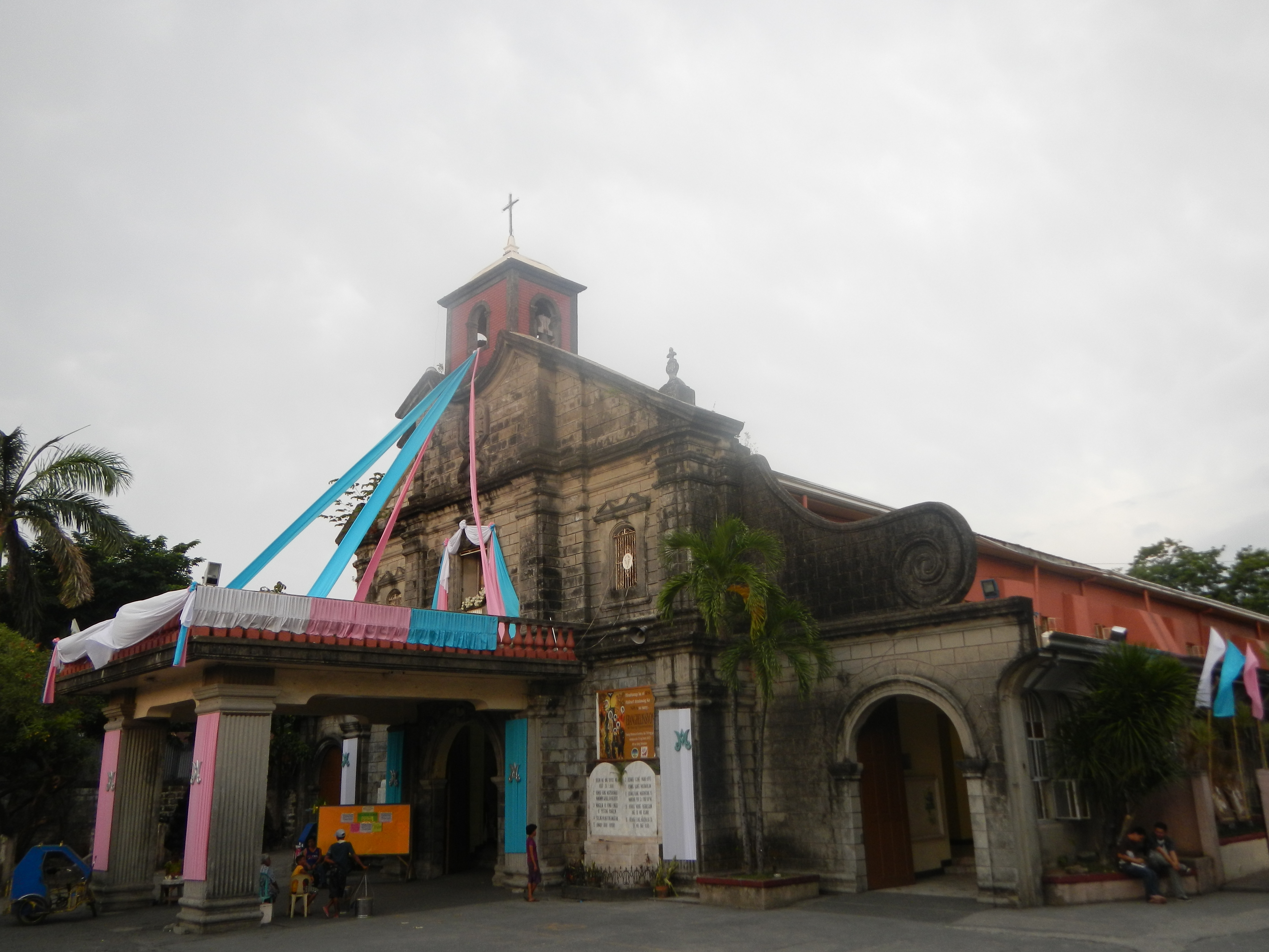 1845 Nuestra Señora Virgen del Santissimo Rosario, Reina de Caracol[1] or "Parish of the Most Holy Rosary" or "The Most Holy Rosary Parish" was conscerated on May 1, 2005 (El Pueblo Amante de Maria) (Our Lady of the Most Holy Rosary, Queen of the Caracol) also called "La Reina de Caracol" or "Mahal na Birhen ng Santo Rosaryo" is the patroness of Rosario "Salinas", Cavite,[2]Philippines. The Blessed Virgin Mary is depicted as Our Lady of the Most Holy Rosary.[3] ---Parish Priest - Fr. Gilberto Delima Urubio October 22, 1845 - Scout Torillo St., Poblacion, 4106 Rosario, CaviteWebsite -- It belongs to the Roman Catholic Diocese of ImusVicariate of The Holy Cross, Vicar Forane: Rev Fr. Calixto C. Lumandas, Parish Priest and Vicarial Representative: Rev Fr. Gilberto D. Urubio.[4] Patron Saint: Nuestra Señora del PilarHistory Pope Francis names Boac Bishop Reynaldo Evangelista new Imus bishop, his first appointment in PHL [5] Currently there are 47 parishes, 9 quasi parishes and 4 pastoral centers in the diocese of Imus. [6] -------- ---------[N.B. Photography of Rosario, Cavite[7]: 30% cloudy and 70% sunny weather using my Nikon AW 100 waterproof shockproof camera. From Bulacan at 9:35 a.m., I took photo of the Baliuag Transit Original station, and at 11:38 a.m., the 5th Avenue LRT Station[8]; then I arrived at Rosario, Cavite and captured Noveleta Battle bridge at 2:08 pm, and then the Salinas Town or Rosario, Cavite at 2:33 pm and finished photography at 7:04 pm, and arrived at Bulacan at 11:30 pm after 4+ hours of travel by bus, and started uploading via slow internet at 11:40 pm - I hereby certify that these raw, original and unedited photos are exclusive for Commons and Wikipedia never uploaded in any Internet or any site, and for the public domain without any condition.]